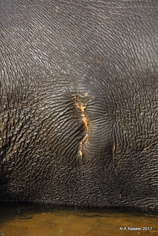 Captive Elephants of Kerala, Cruelty against elephants, Aanapremam, Thrissur Pooram, Festivals of Kerala, Elephants in captivity, Temples of Kerala